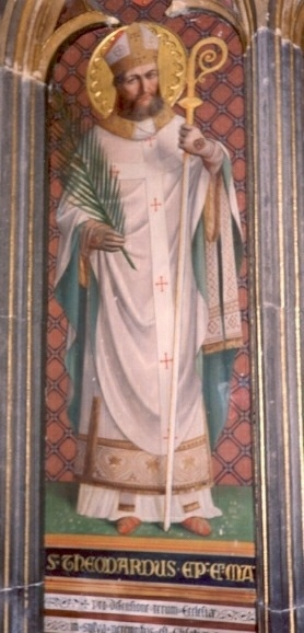 Saint Theodard, painted around 1860 by Jules Helbig in the cathedral of Saint Paul in Liège, Belgium.